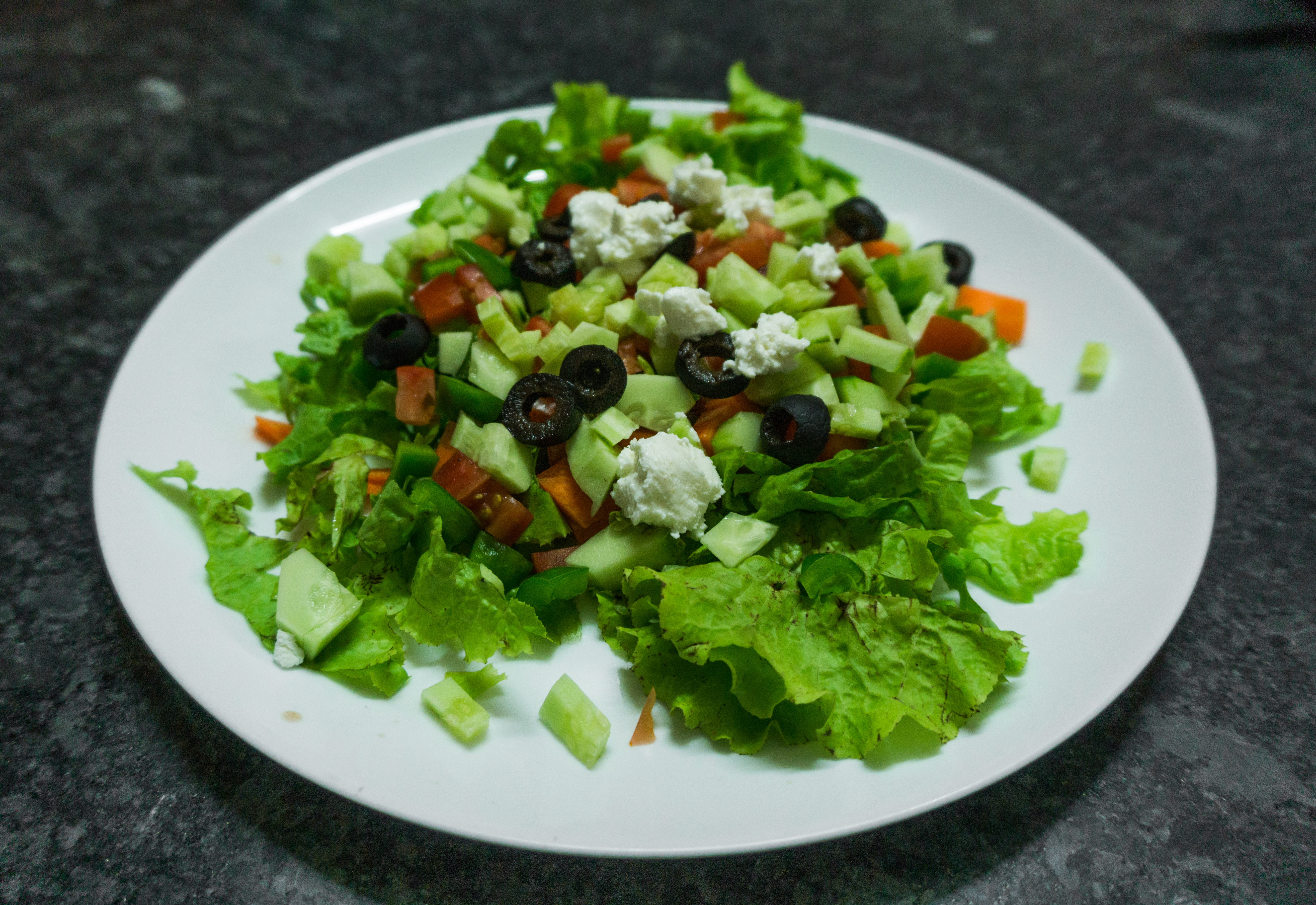 Mediterranean Salad is a mix of cubed cucumber, tomatoes, carrots, capsicums, olives topped with feta cheese and served on a bed of lettuce.